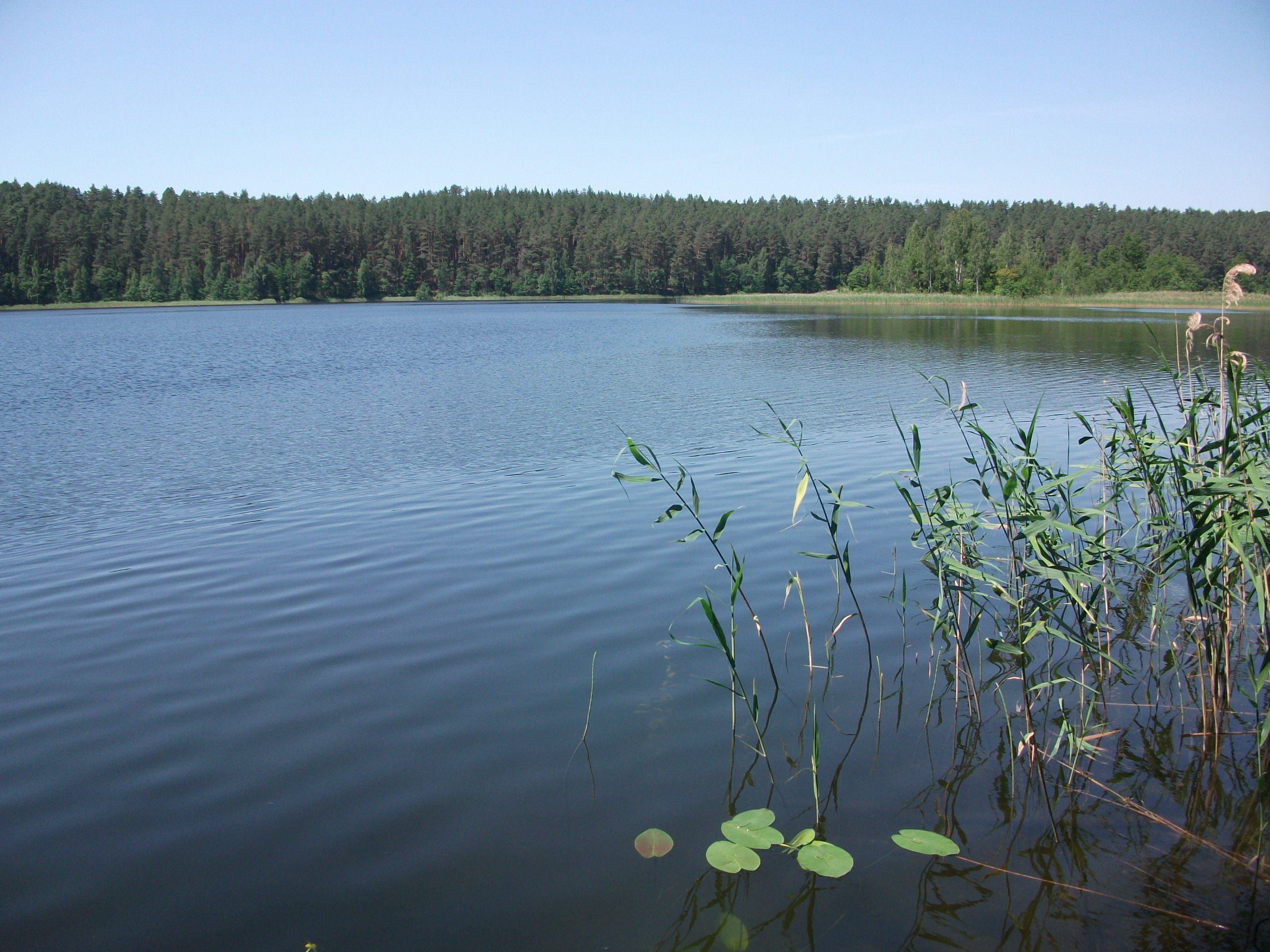 Douzhyna Lake, Ušačy District, Belarus